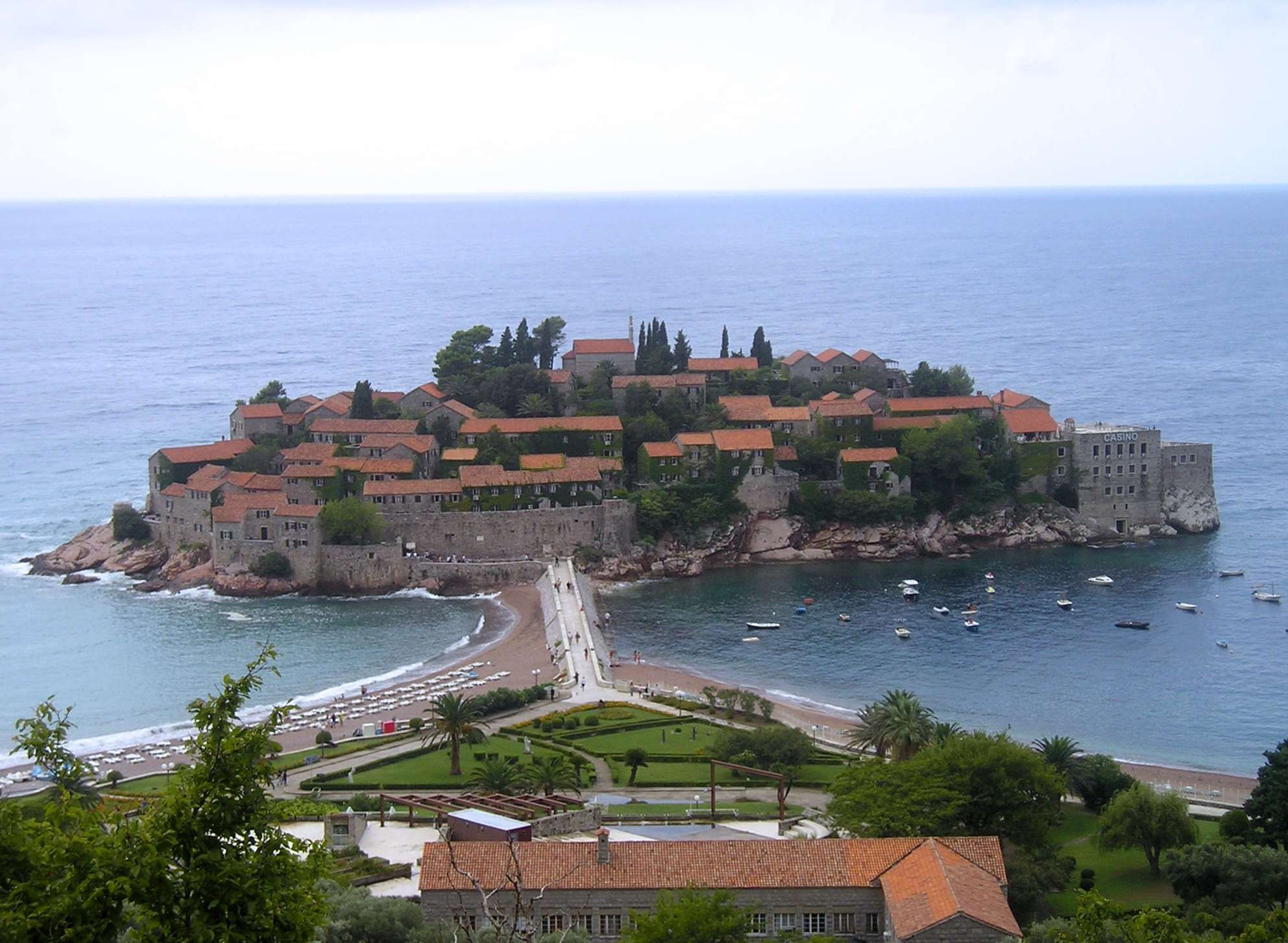 Sveti Stefan, Montenegro